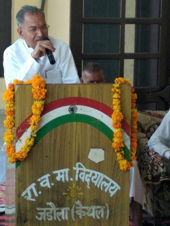 Tell the essence of life of Valmiki Ji Bhagwan to the peoples at Balmiki Parkat Divas Village-Jadaula Distt - Kaithal 136020